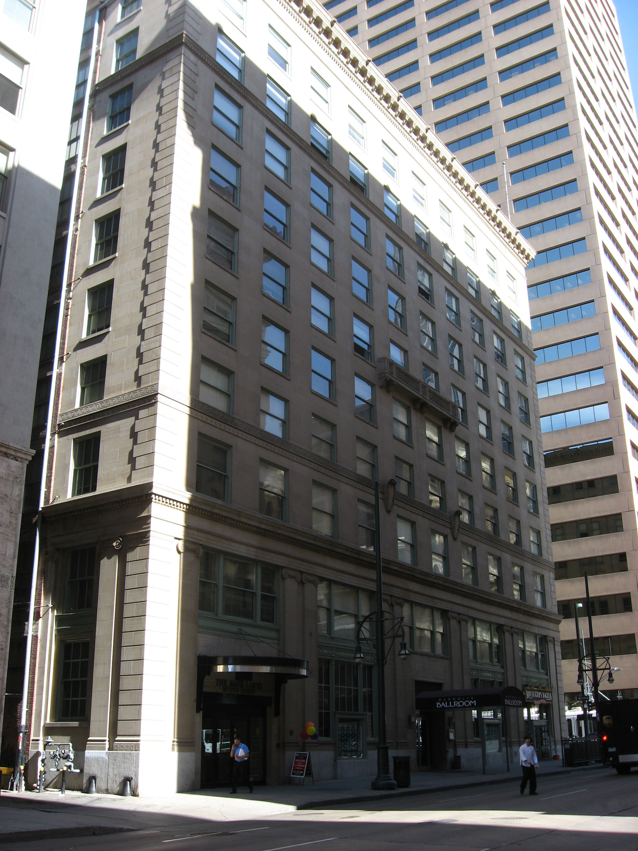 Front of the old US National Bank Building, located at the northern corner of the intersection of Stout and Seventeenth Streets in Denver, Colorado, United States. Now primarily the Magnolia Hotel Ballroom, it is also the location of a Bruegger's franchise. Built in 1920, the building is listed on the National Register of Historic Places.